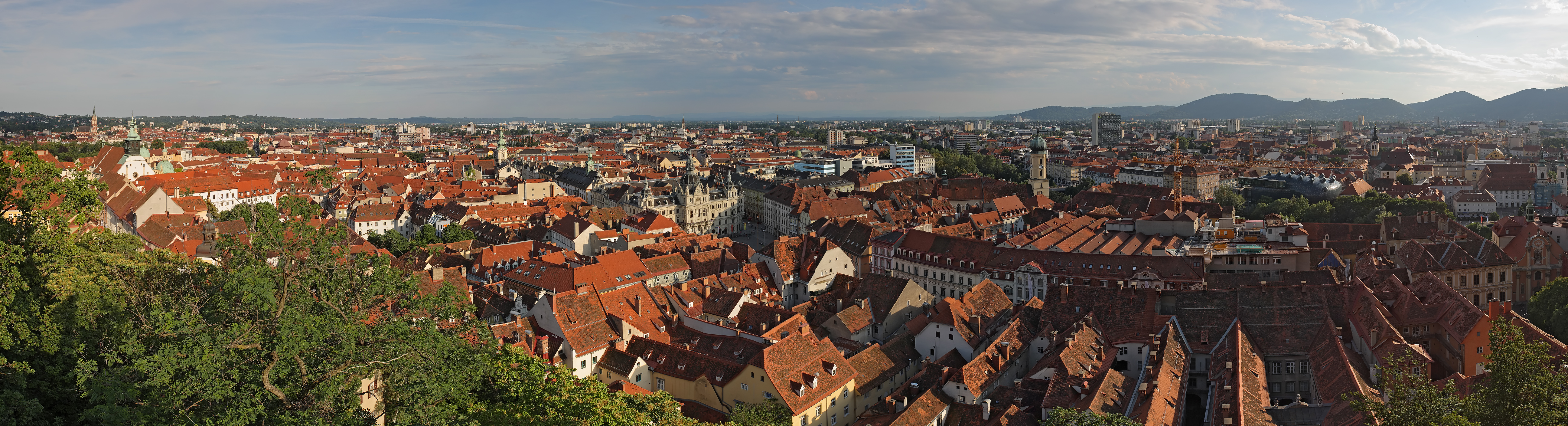 Panorama of Graz, Austria from Schlossberg. Stitched image from 11 portrait format images. (original which is not under CC is 14000x4000)